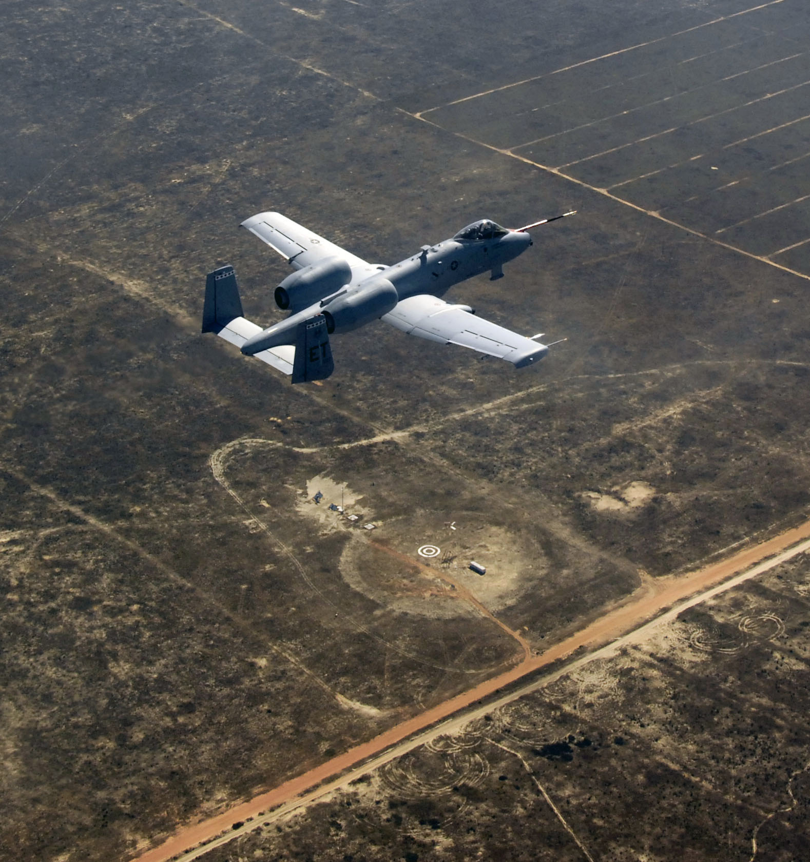 An A-10C Thunderbolt II, piloted by Maj. Matthew Domsalla, flies over what's left of a target Nov. 5 that was successfully hit by a Laser Joint Direct Attack Munition dropped by Major Domsalla. This was the first time an LJDAM weapon was dropped from an A-10. The successful test moved this weapon capability for the A-10 closer to fielding for warfighters. Major Domsalla is with the 40th Flight Test Squadron at Eglin Air Force Base, Fla. (U.S. Air Force photo/Master Sgt. Joy Josephson)